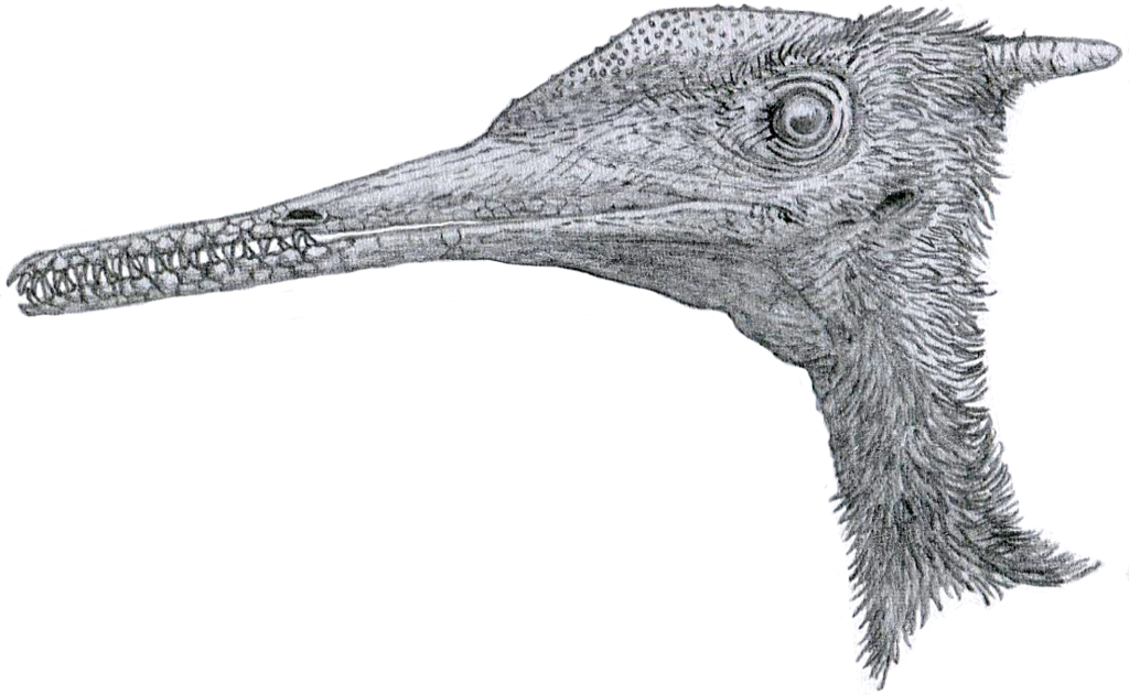 Portrait reconstruction of Aerodactylus solopaciceps.